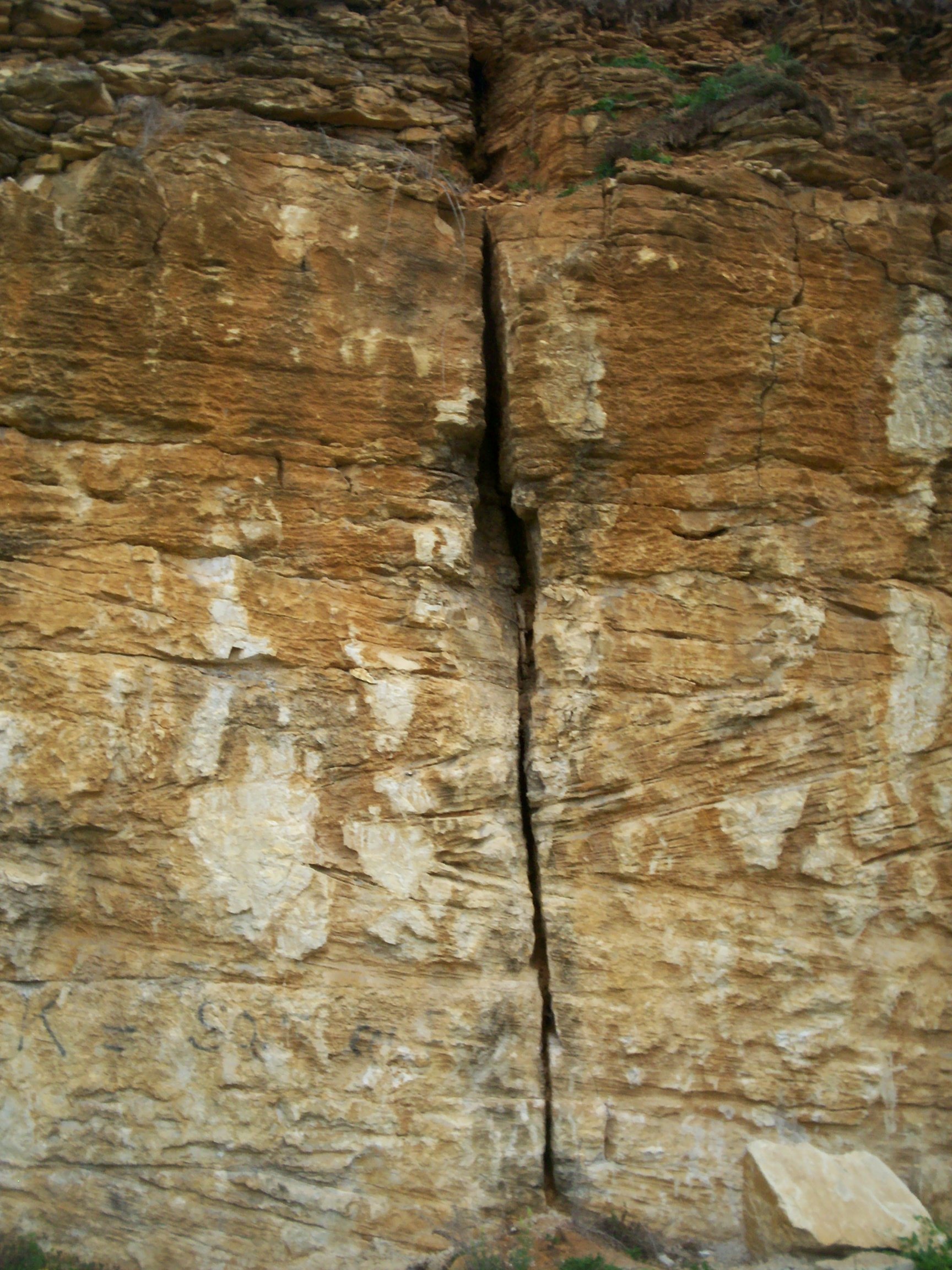 Vertical joint in cross-bedded rock layers of middle Jurassic age in Ranchot (Jura, France).